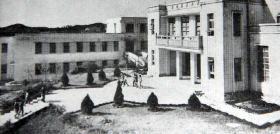 Overseas Chinese Primary School,Canton